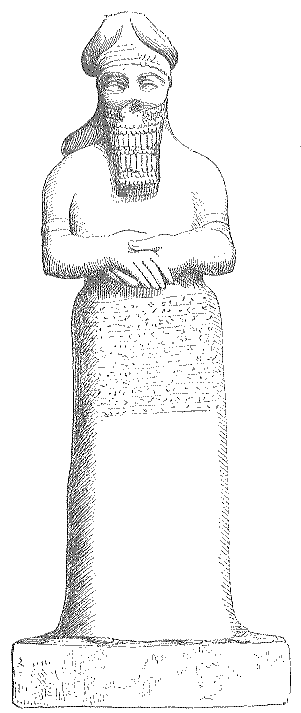 The Chaldean god Nabu, from a status in the British Museum. This version of Project Gutenberg image taken from